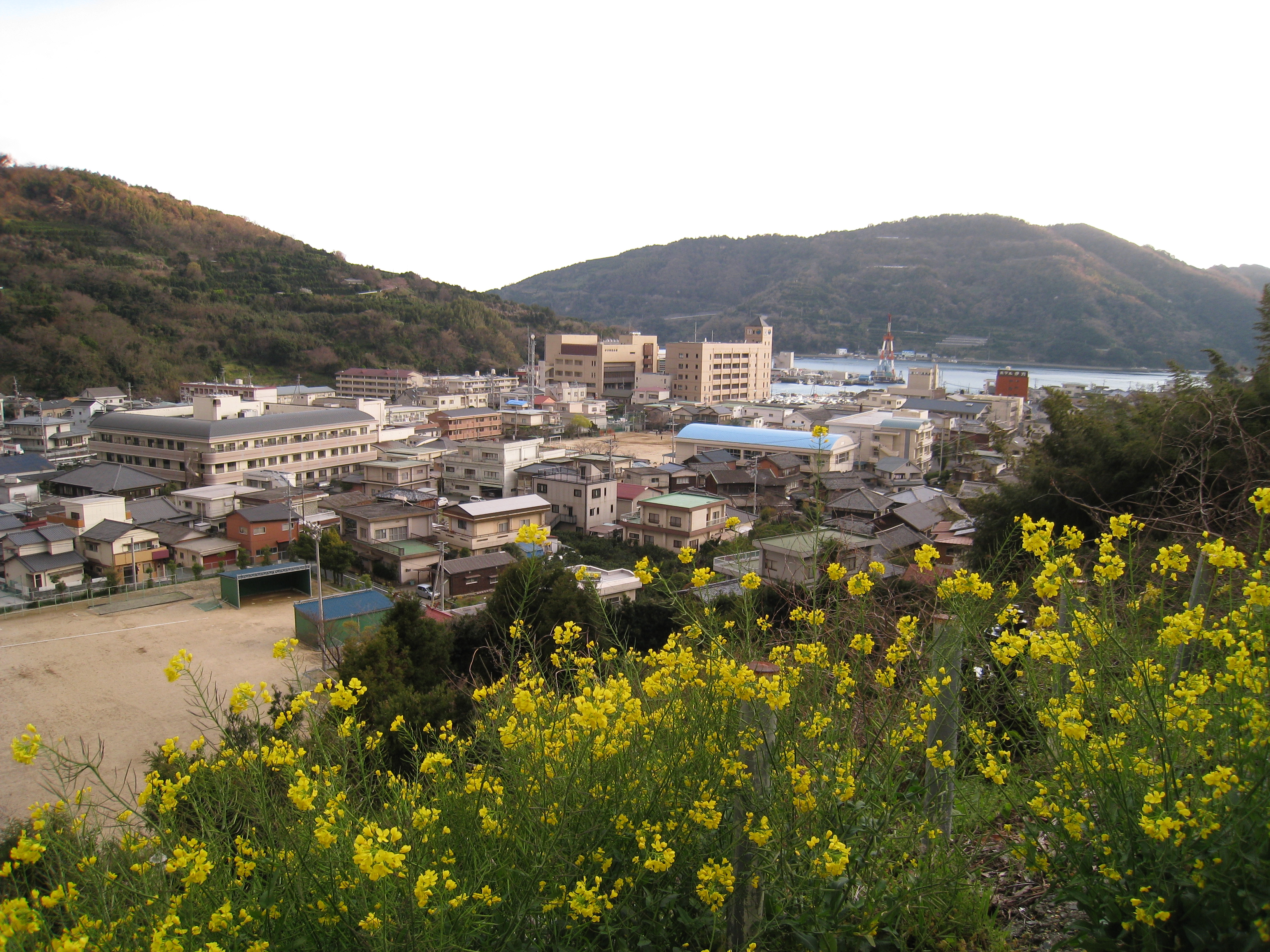 The Minatoura neighborhood of Ikata, Ehime in the springtime, as seen from Melody Line.